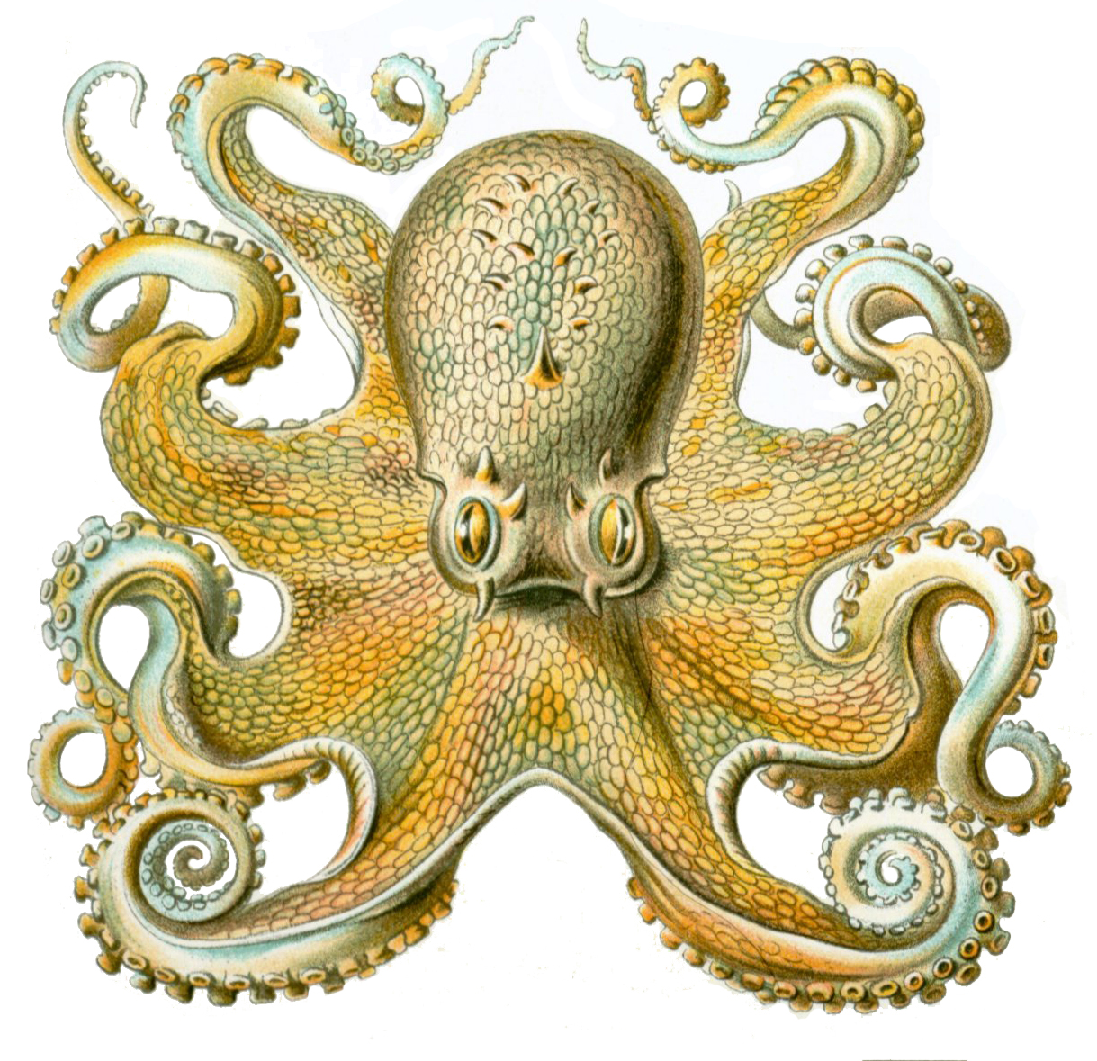 Octopus vulgaris